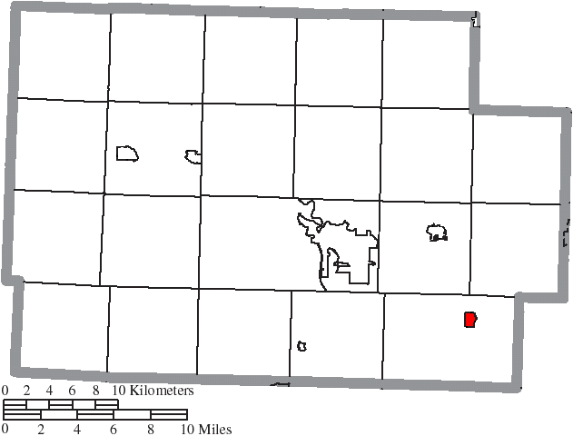 Map of the municipal and township boundaries of Coshocton County, Ohio, United States, as of the 2000 census, with the location of the village of Plainfield highlighted. Township borders are shown only in unincorporated areas in order to differentiate incorporated and unincorporated areas more clearly.